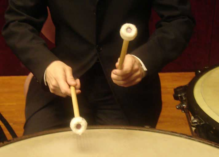 timp-hands